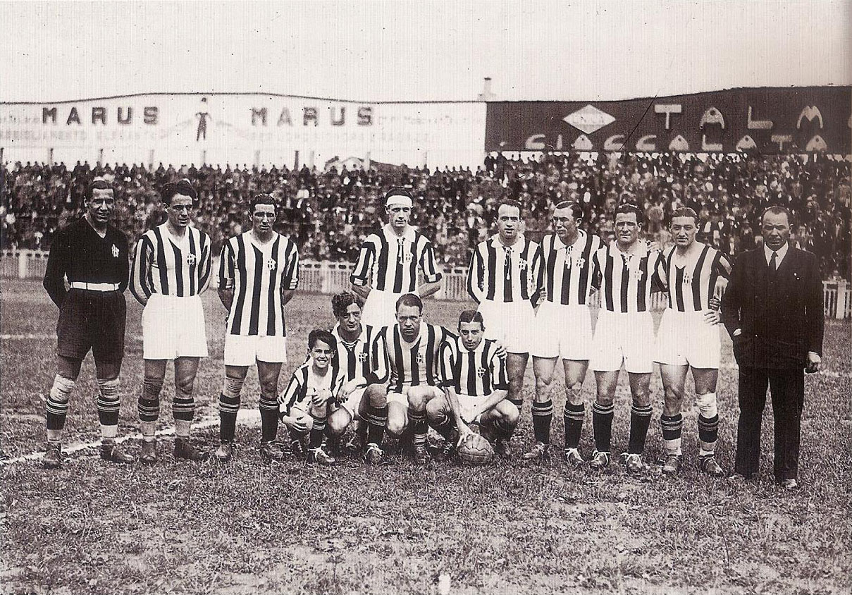 A line-up of F.C.B. Juventus in the 1931–32 season, posing inside the Campo Juventus ("Juventus Ground") in Turin, Italy. From left to right, standing: G. Combi, F. Munerati, G. Vecchina, L. Bertolini, G. Ferrari, M. Varglien (I), L. Monti, U. Caligaris, C. Carcano (coach); crouched: mascotte, R. Cesarini, V. Rosetta (captain), R. Orsi.